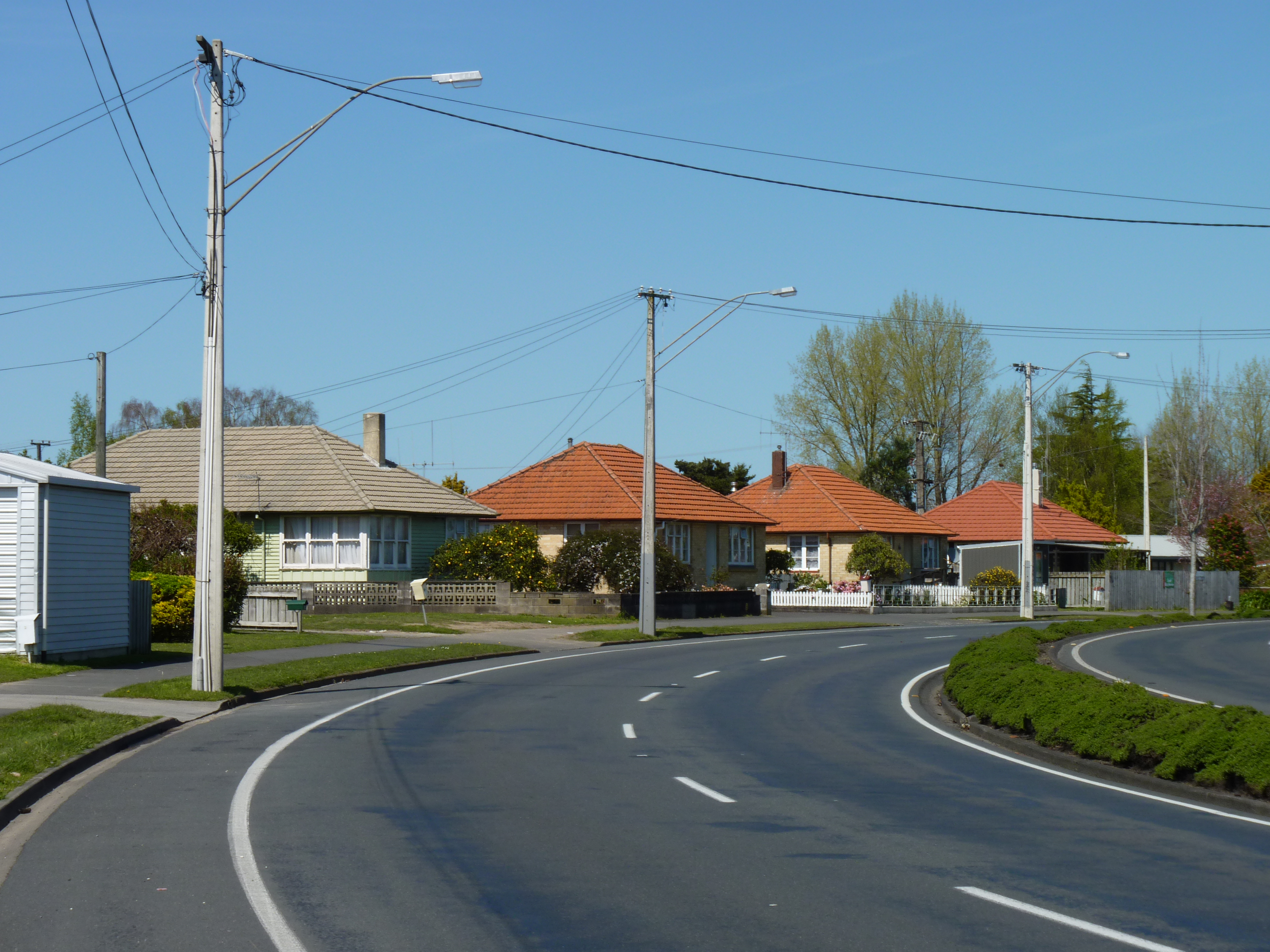 Melville in south Hamilton.